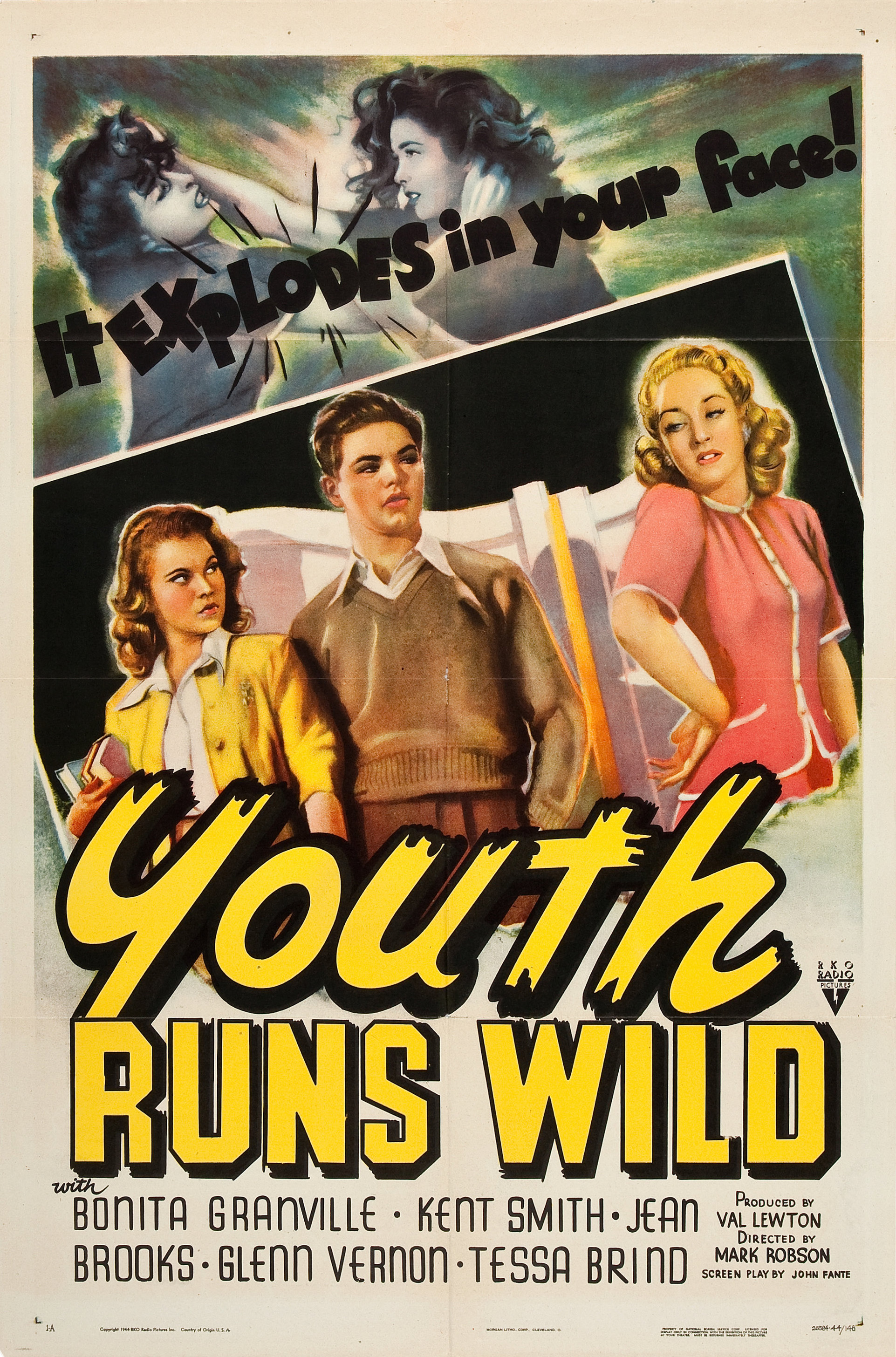 Theatrical poster for the American release of the 1944 film Youth Runs Wild.